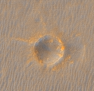 False colour of Emma Dean crater, taken by HiRISE. Cropped from this.